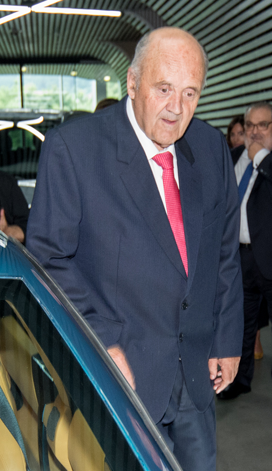 José Ignacio López de Arriortúa, former GM/Opel and later Volkswagen manager, at an ACICAE event in 2018 (cropped).